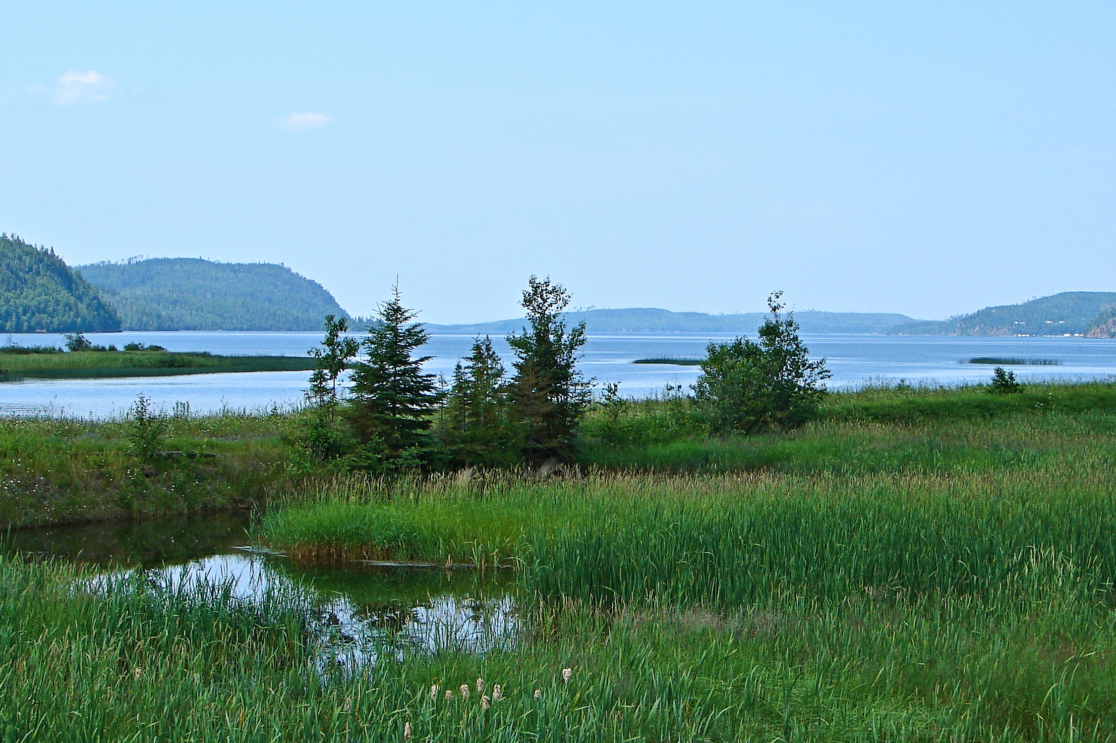 View of Lake Nipigon from Orient Bay, Thunder Bay District, Ontario, Canada